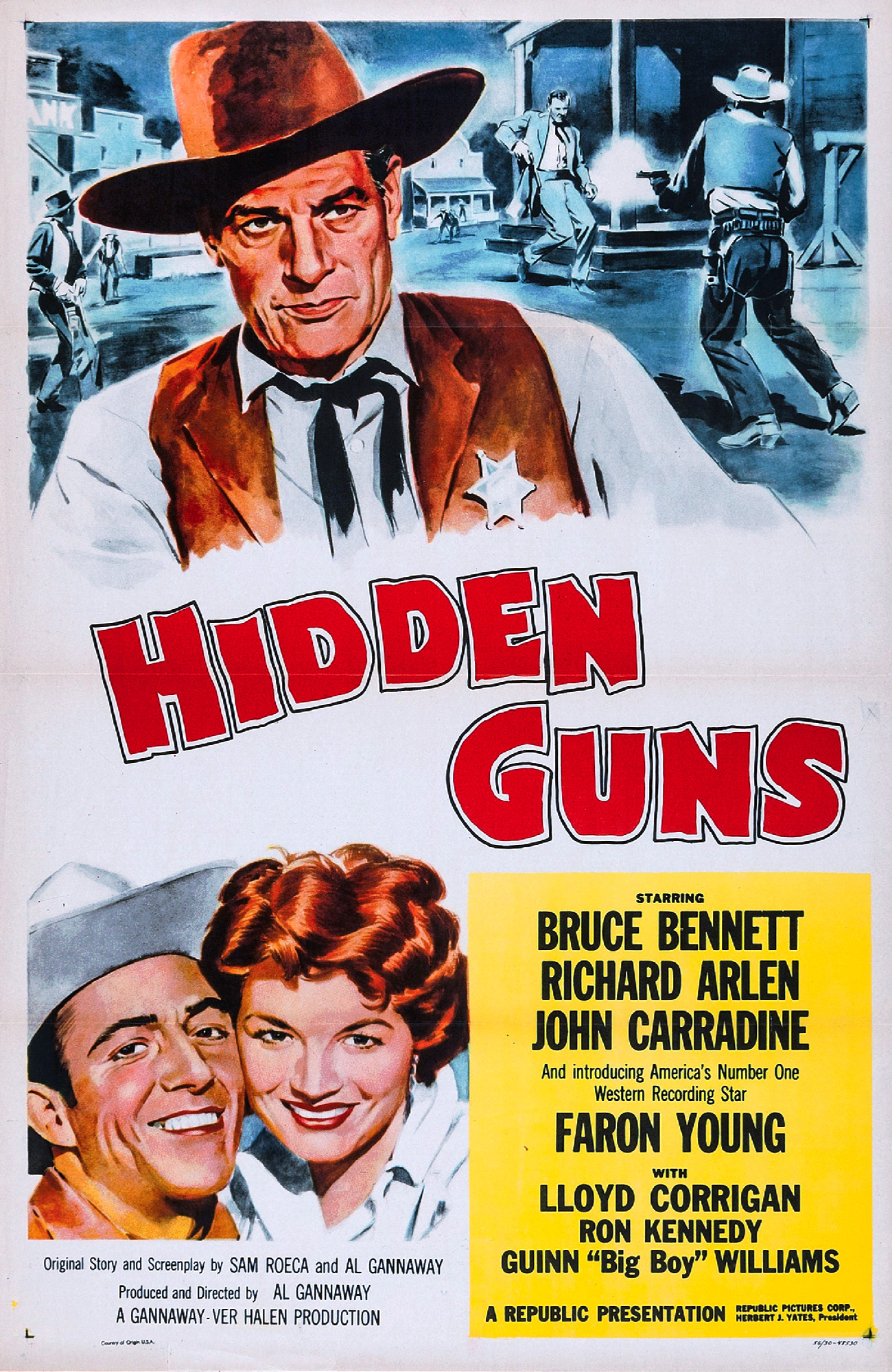 Poster for the 1956 film Hidden Guns. There are no copyright marks. At bottom is Country of origin USA and 56/30-48530.